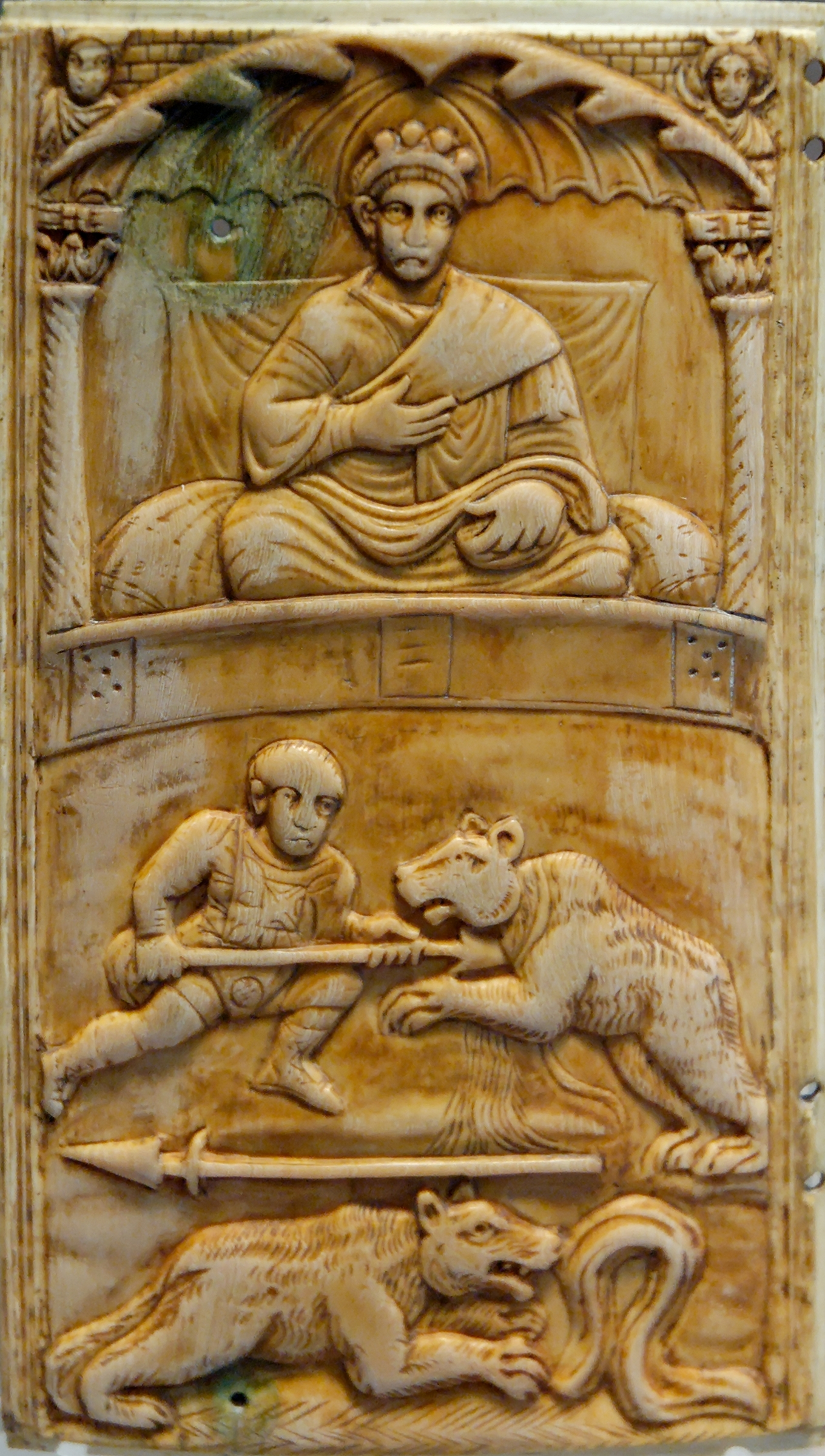 Roman games: bear fighting. Left leaf from a diptych, coloured ivory, ca. 400 CE.